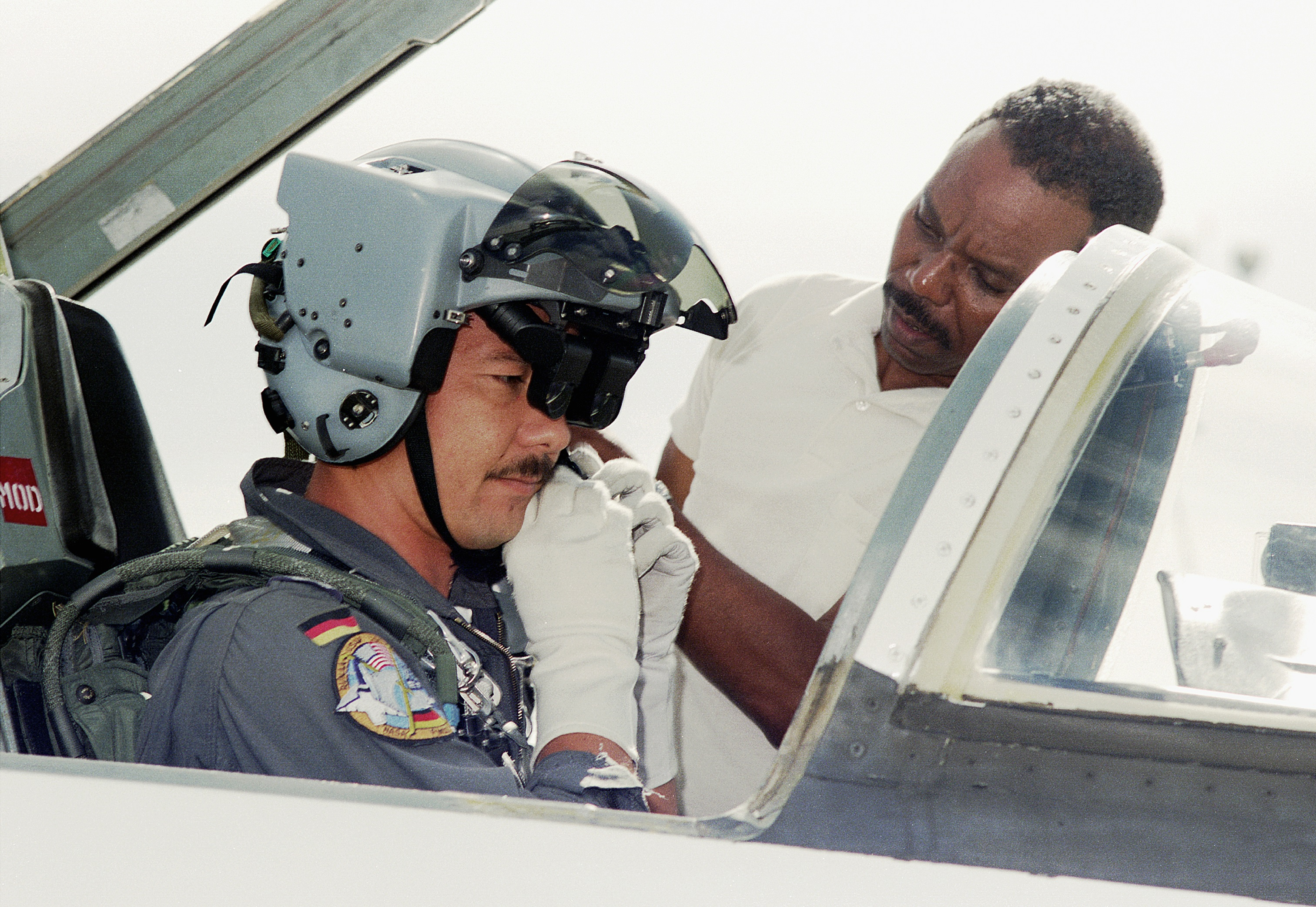 Dryden Flight Research Center EC93-42234-2 Photographed 1993 Bob McElwain from Life Support assists German test pilot Quirin Kim strap into a T-38 with a GEC-Marconi avionics HMD helmet. NASA photo by Jim Ross